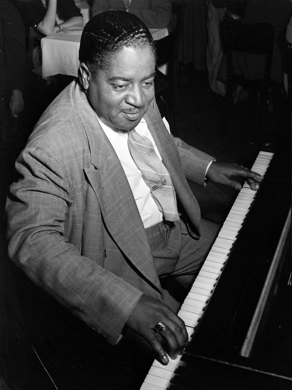 Pete Johnson, August 1946. Photograph by William P. Gottlieb